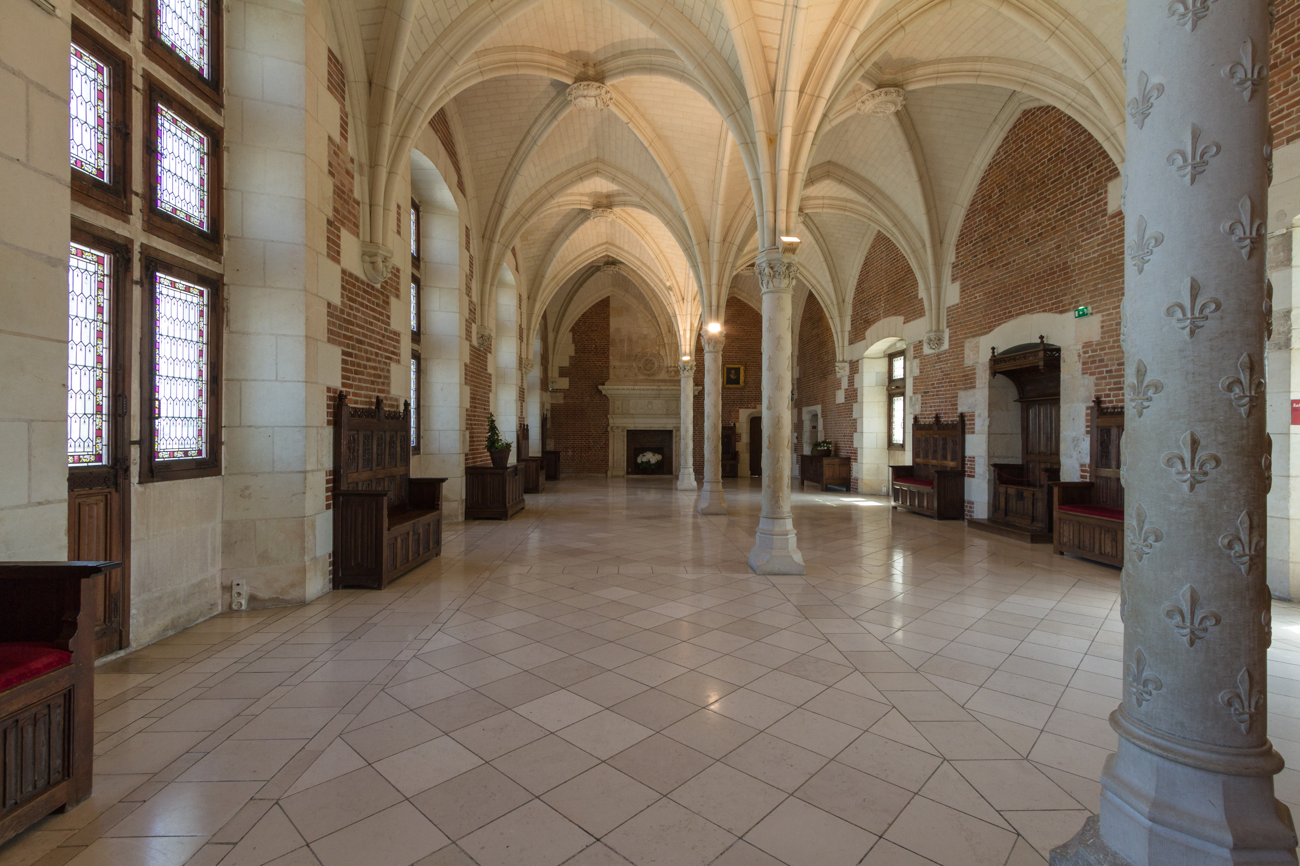 Council room of the Amboise castle, where council were hold. It's the largest room of the castle and features France and Brittany's coat of arms.